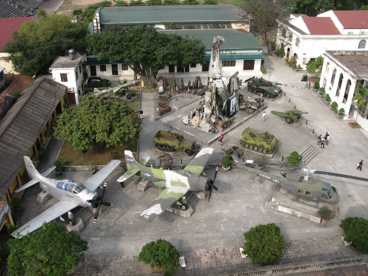 View of the Vietnam Military History Museum, 28A, Ba Đình, Hanoi, Vietnam. Visible are (clockwise from the center): Wreckage from a Boeing B-52G Stratofortress, M107 self-propelled gun, M114 155 mm howitzer, M113 armoured personnel carrier, Bell UH-1H Huey, M3 half-track, Douglas A-1H Skyraider (BuNo 134636), A-1E (BuNo 132436) S-75 Dvina surface-to-air missile. Note that the markings and camouflage paint are not historic.